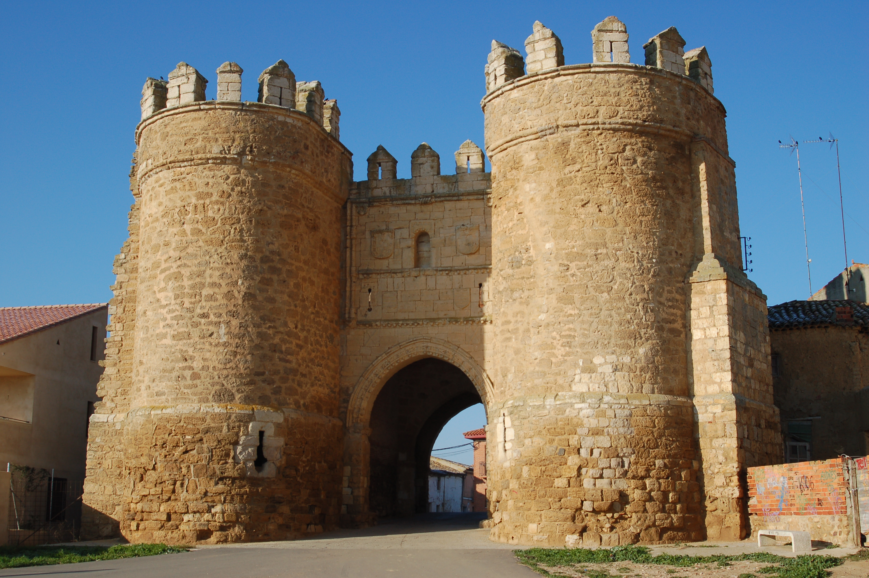 St. Andrew's Gate or "Puerta Villa", Villalpando, Zamora, Spain